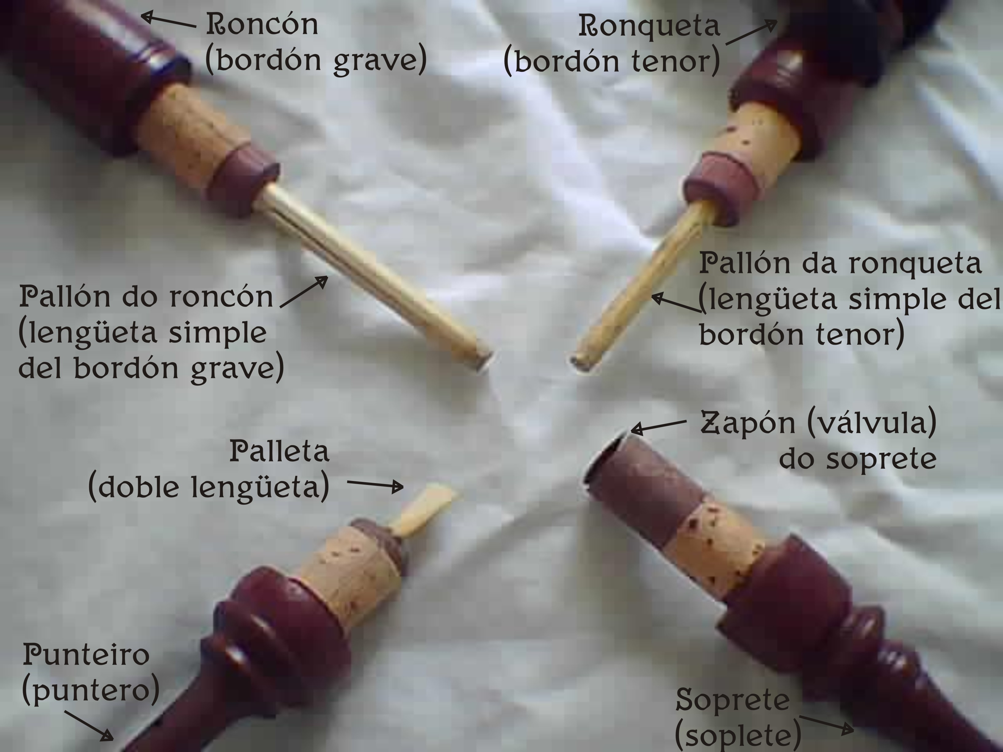 Sound mechanism of the Galician bagpipes detailed.